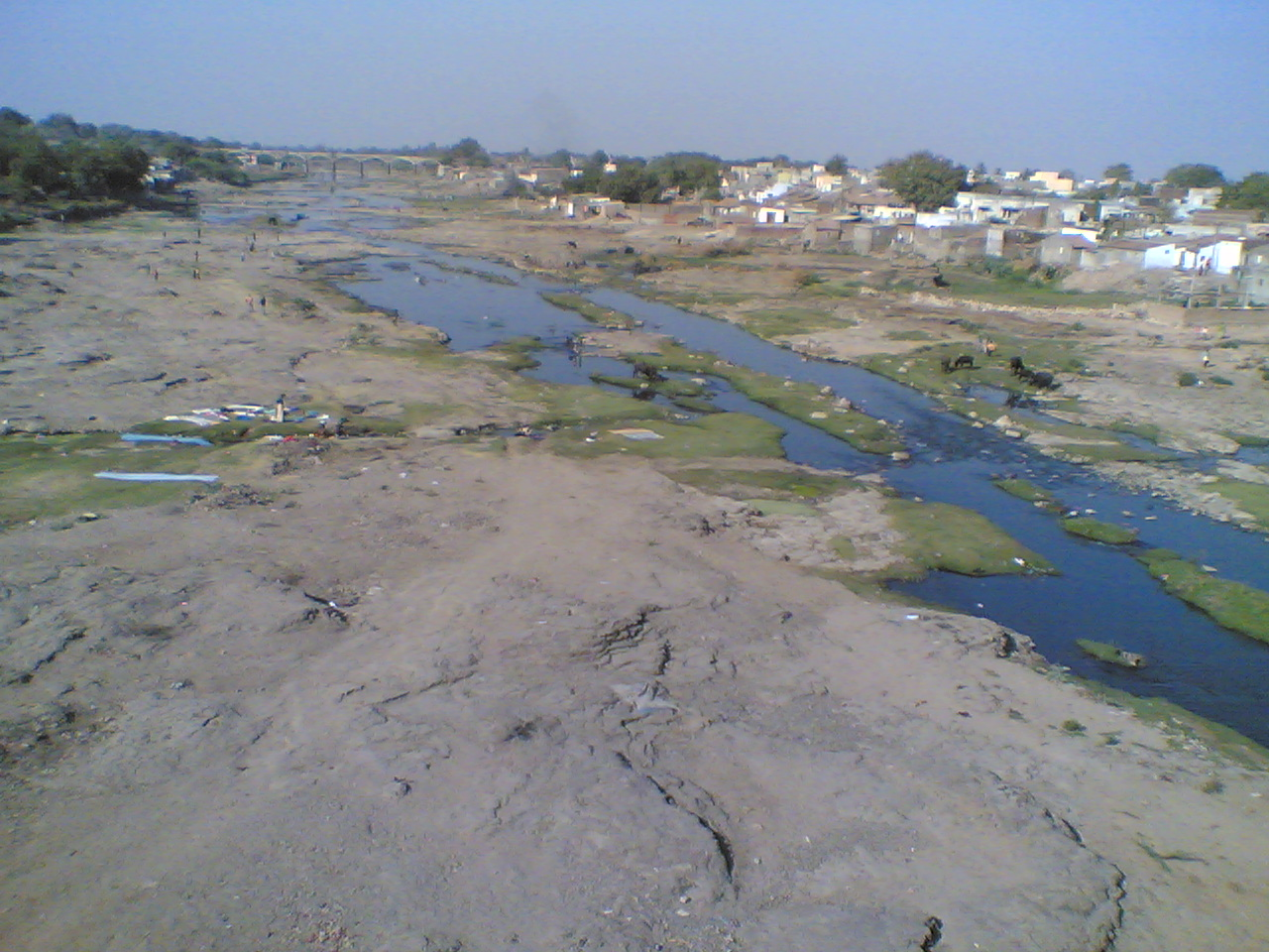 Aji River, Gujarat. Image shows view of basin from railway bridge at Rajkot.